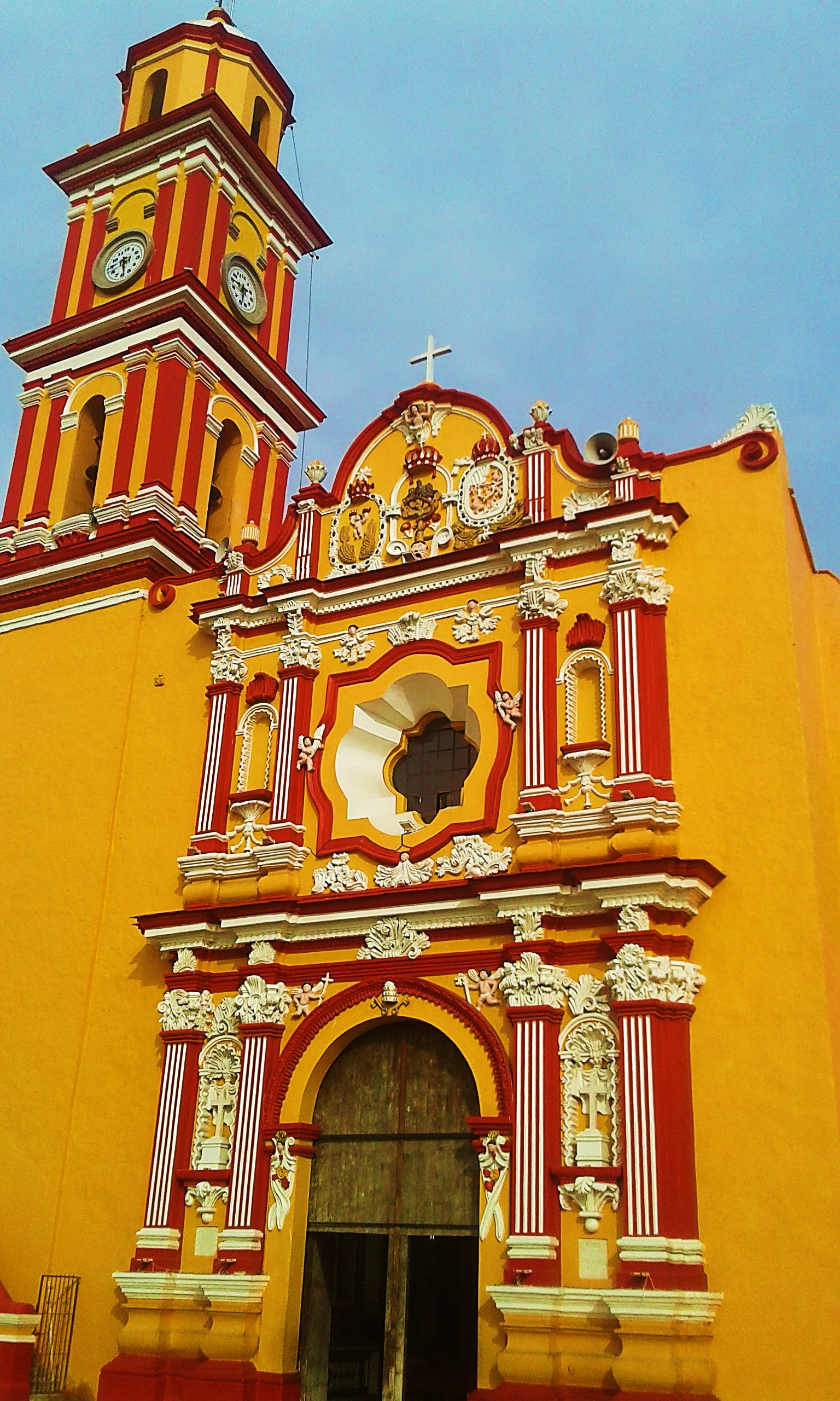 amatlan church